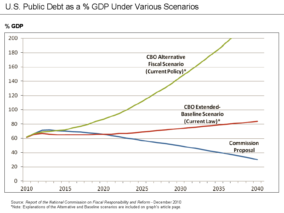 Projections by National Commission on Fiscal Responsibility and Reform Understanding the Chart The chart is from page 10 of the final report of the National Commission on Fiscal Responsibility and Reform, which was issued in December 2010. The following is the chart caption in the report: "The Extended-Baseline Scenario generally assumes continuation of current law. The Alternative Fiscal Scenario incorporates several changes to current law considered likely to happen, including the renewal of the 2001/2003 tax cuts on income below $250,000 per year, continued Alternative Minimum Tax (AMT) patches, the continuation of the estate tax at 2009 levels, and continued Medicare “Doc Fixes.” The Alternative Fiscal Scenario also assumes discretionary spending grows with Gross Domestic Product (GDP) rather than to inflation over the next decade, that revenue does not increase as a percent of GDP after 2020, and that certain cost-reducing measures in the health reform legislation are unsuccessful in slowing cost growth after 2020."[1] These scenarios are discussed in further detail in the Commissions Report and the CBO's periodic Long Term Budget Outlook reports. Bear in mind also that this chart represents the public debt, which excludes the intragovernmental debt.